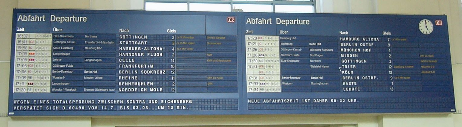 Departure board (split-flap) at Hannover Hauptbahnhof (Hannover main train station), Germany.